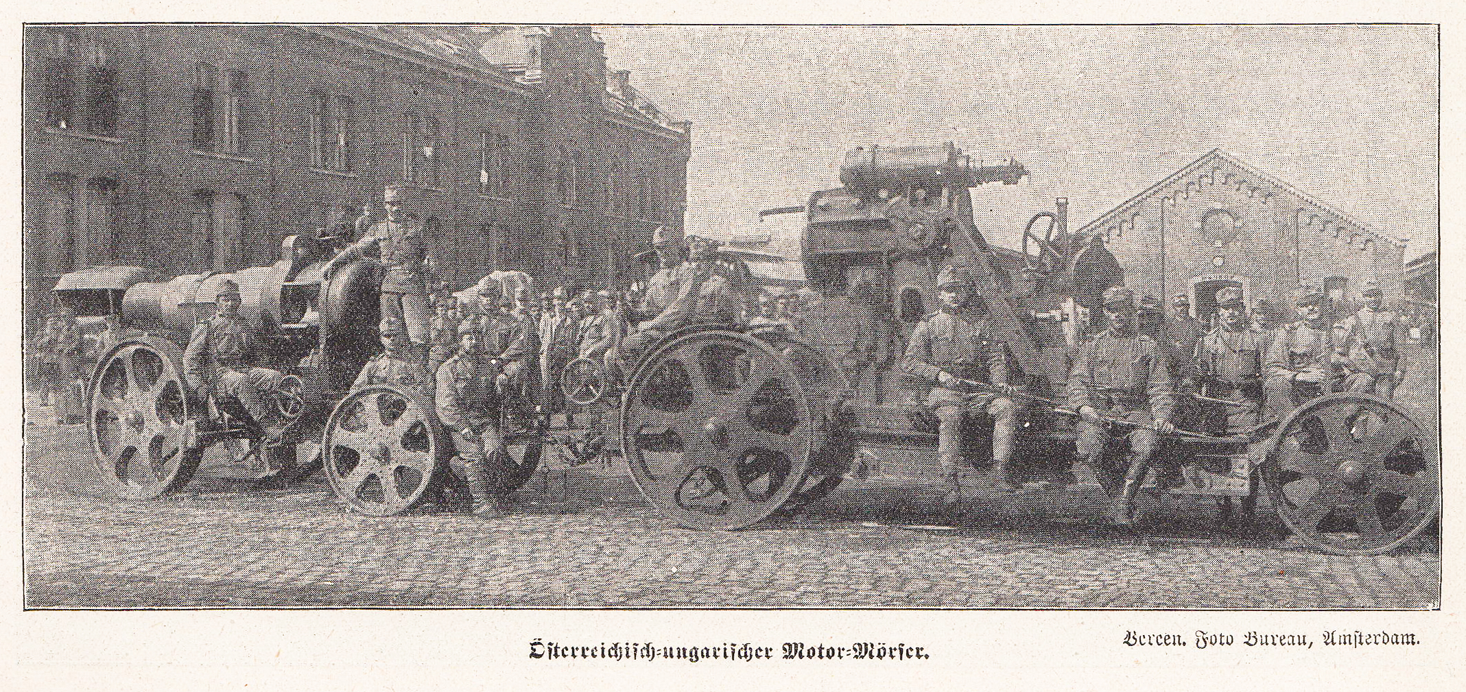 Der Krieg 1914-19 in Wort und Bild, published 1919